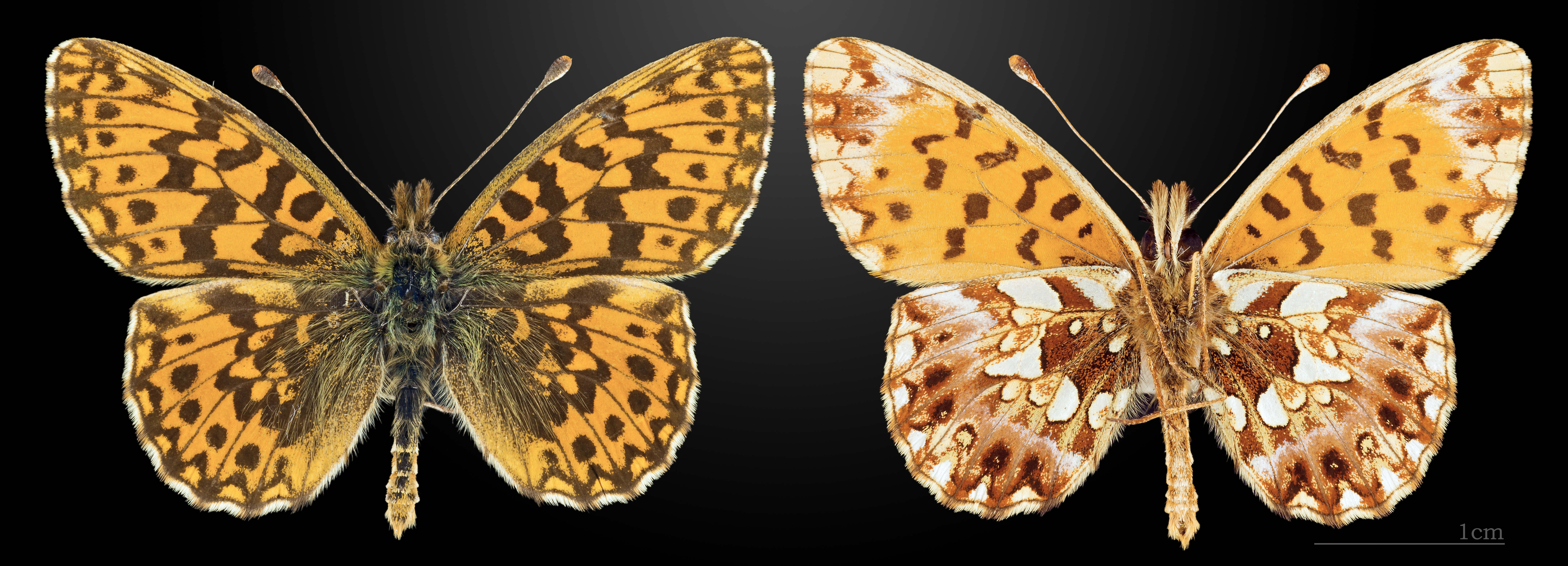 Violet Fritillary - Male - Two views of same specimen Locality: Lalbenque, Lot, France